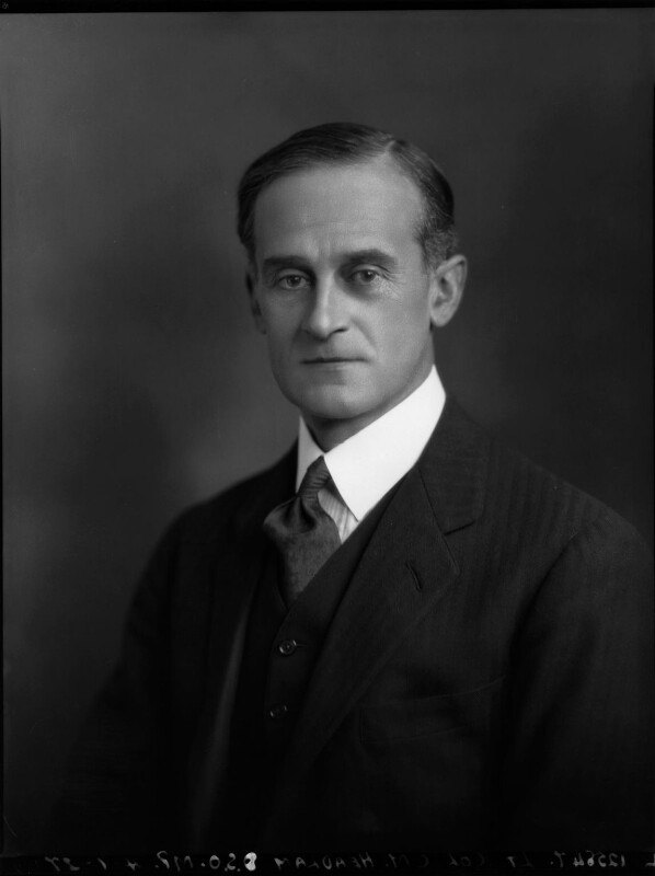 Hedlem Cuthebert